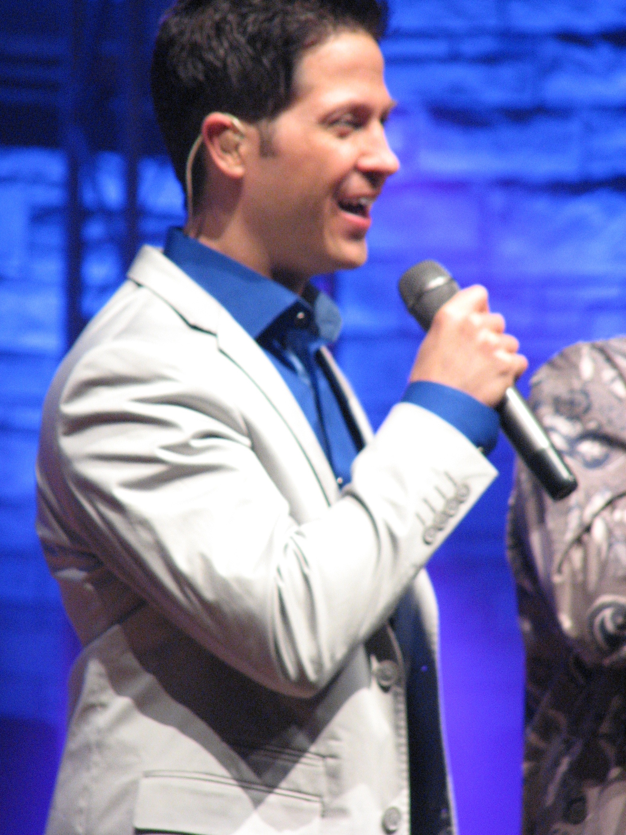 This is a photo of Wes Hampton singing in concert